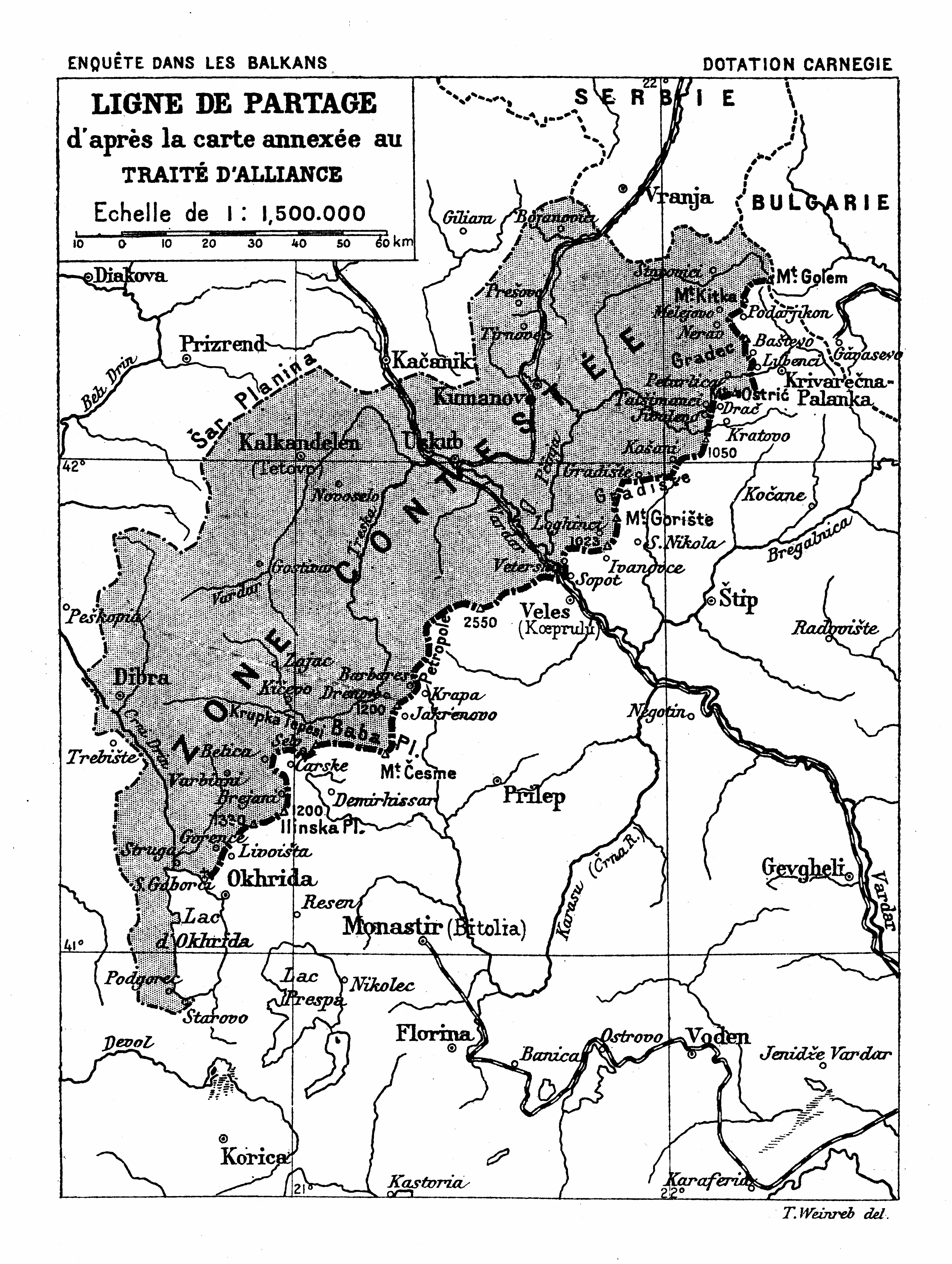 'The Map of the "Disputed Teritory" (1912)' Disputed between Sebia and Bulgaria, in 1912. Details at